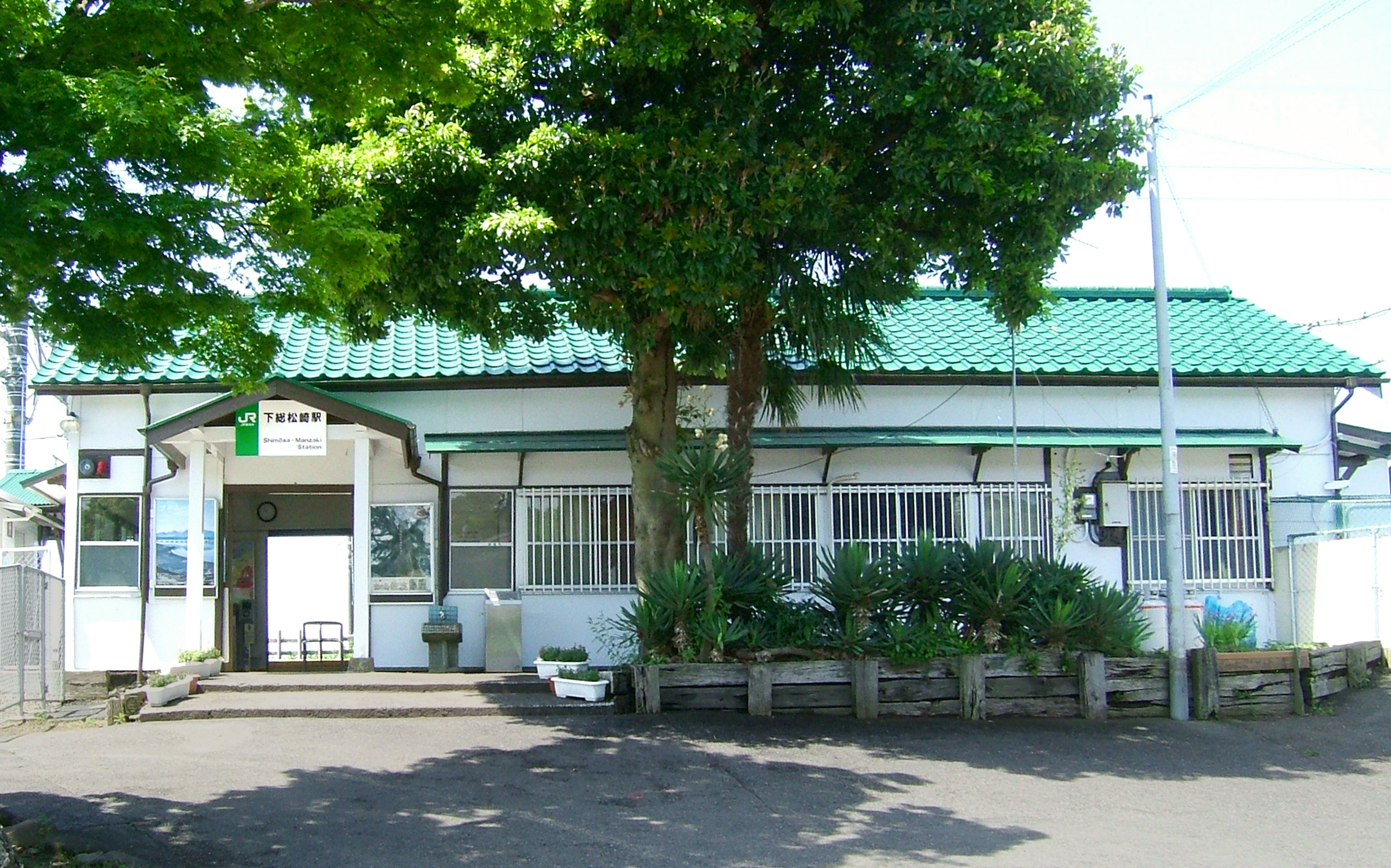 Shimousa-Manzaki Station building (East Japan Railway Narita Line)